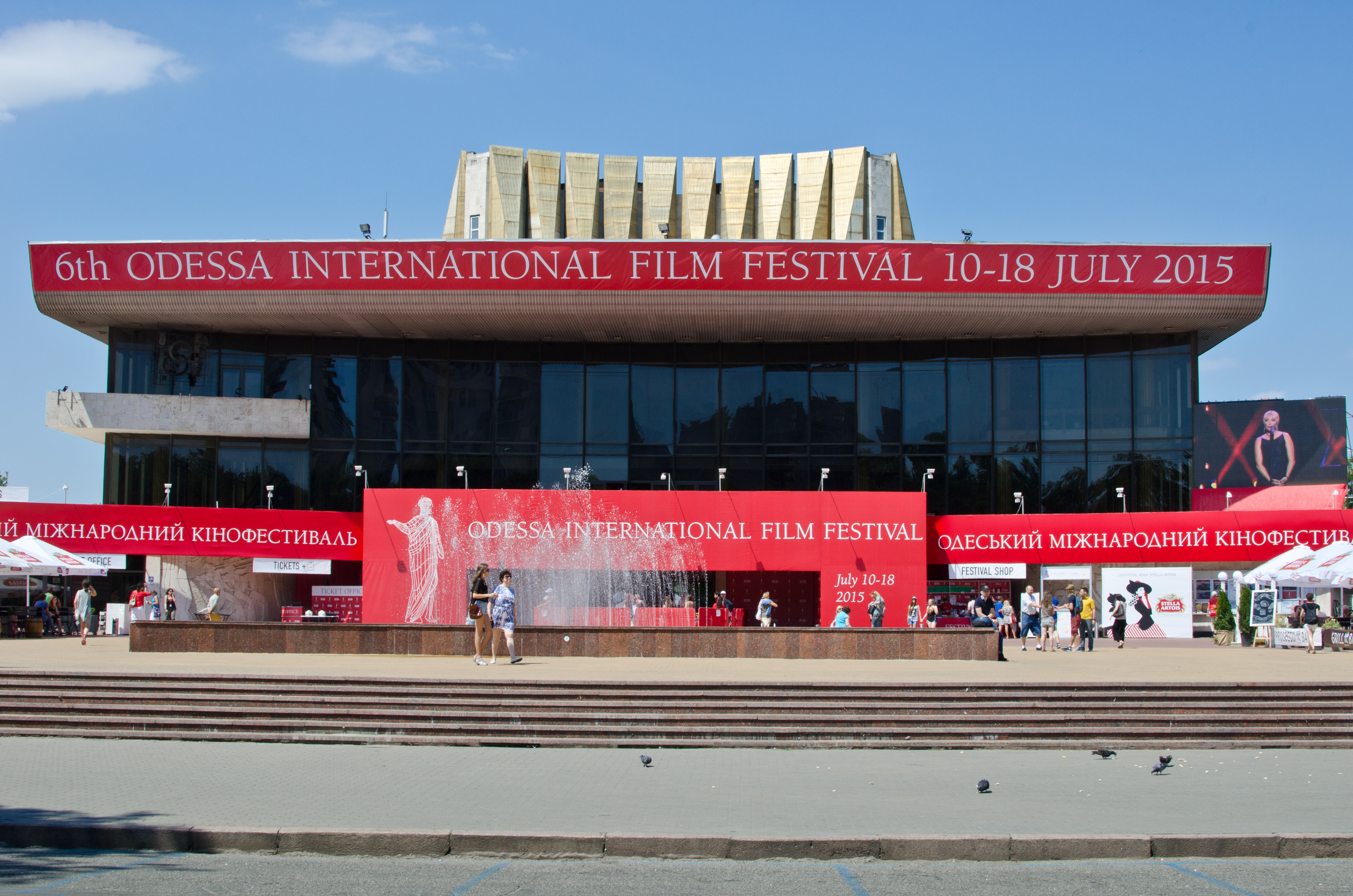 Odessa Music Comedy Theater, main host of Odessa International Film Festival 2015.